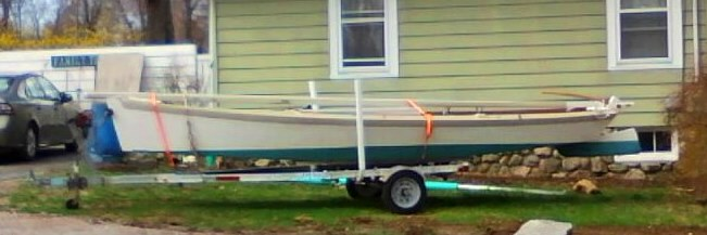 19 foot Ohio sharpie, Ruel Parker design